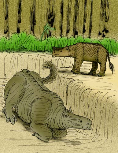 Reconstruction of the embrithopod Crivadiatherium (top), and the brontothere Brachydiastematherium, from Late Eocene Transylvania